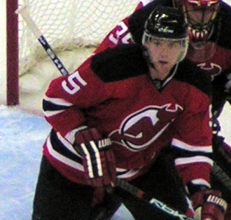 Colin White plays a homegame against Washington